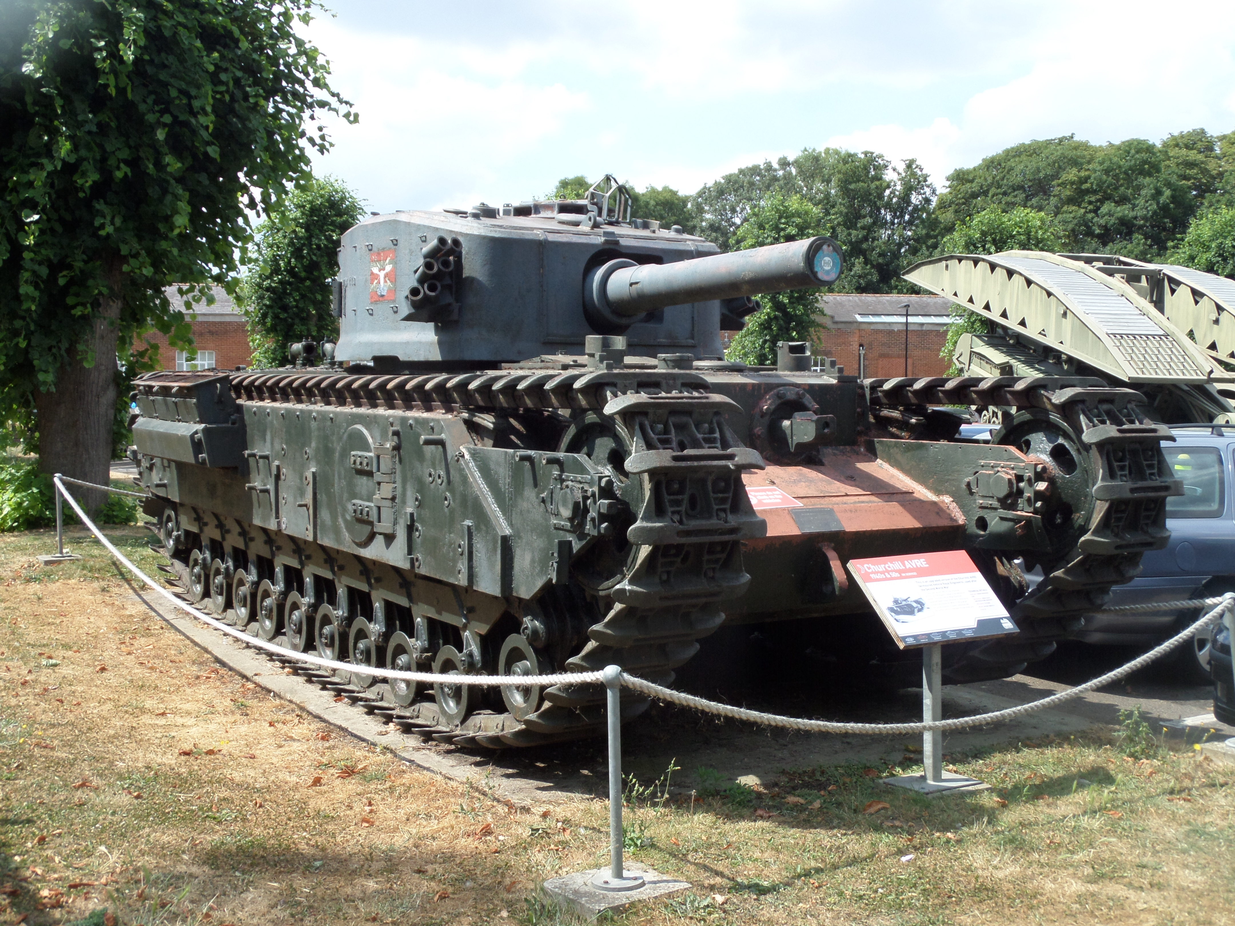 Armoured Vehicle Royal Engineers (AVRE). This post-war version fired a HESH round designed for destroying bunkers and obstacles. On display at Royal Engineers Museum, Kent.